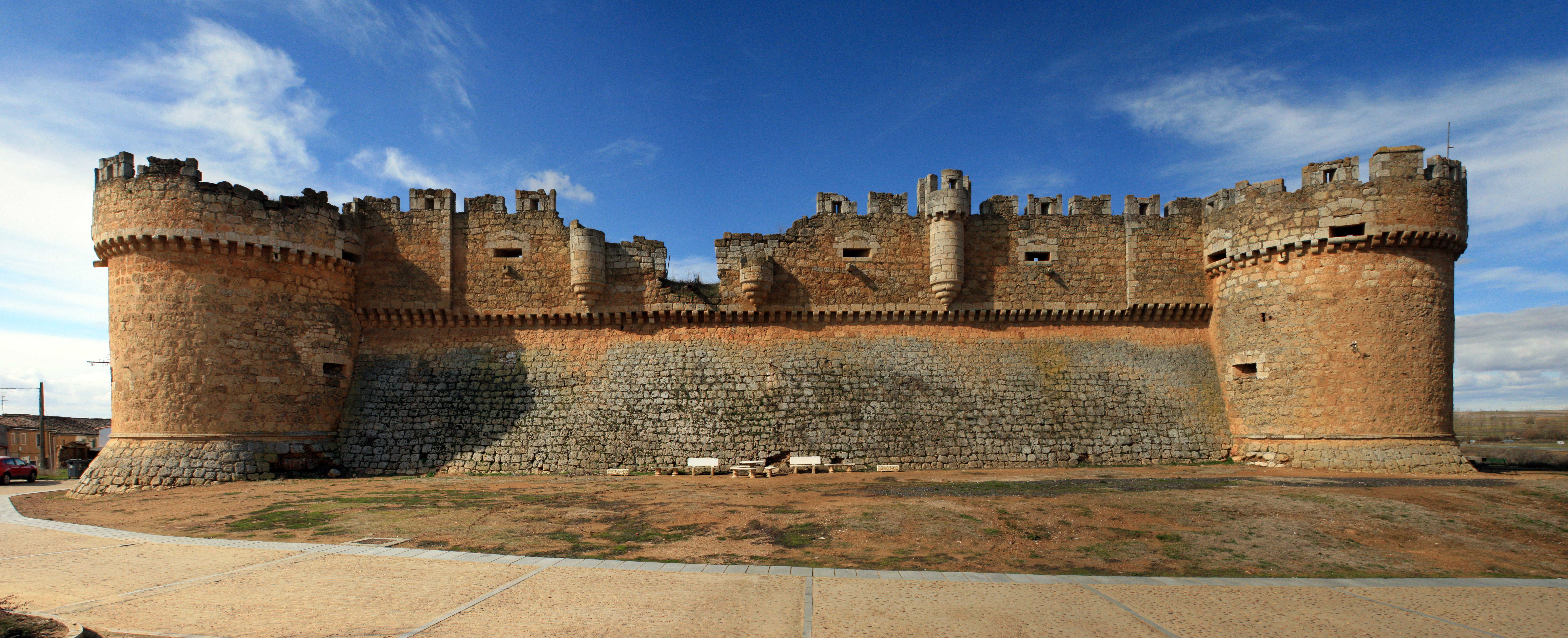 Panoramic photography of the castle of Grajal de Campos (León, Spain), taked during my visit to this locality. Images taken with a Canon EOS 400D and mounted with Photoshop CS5 12.0 See also: Castles in Spain.